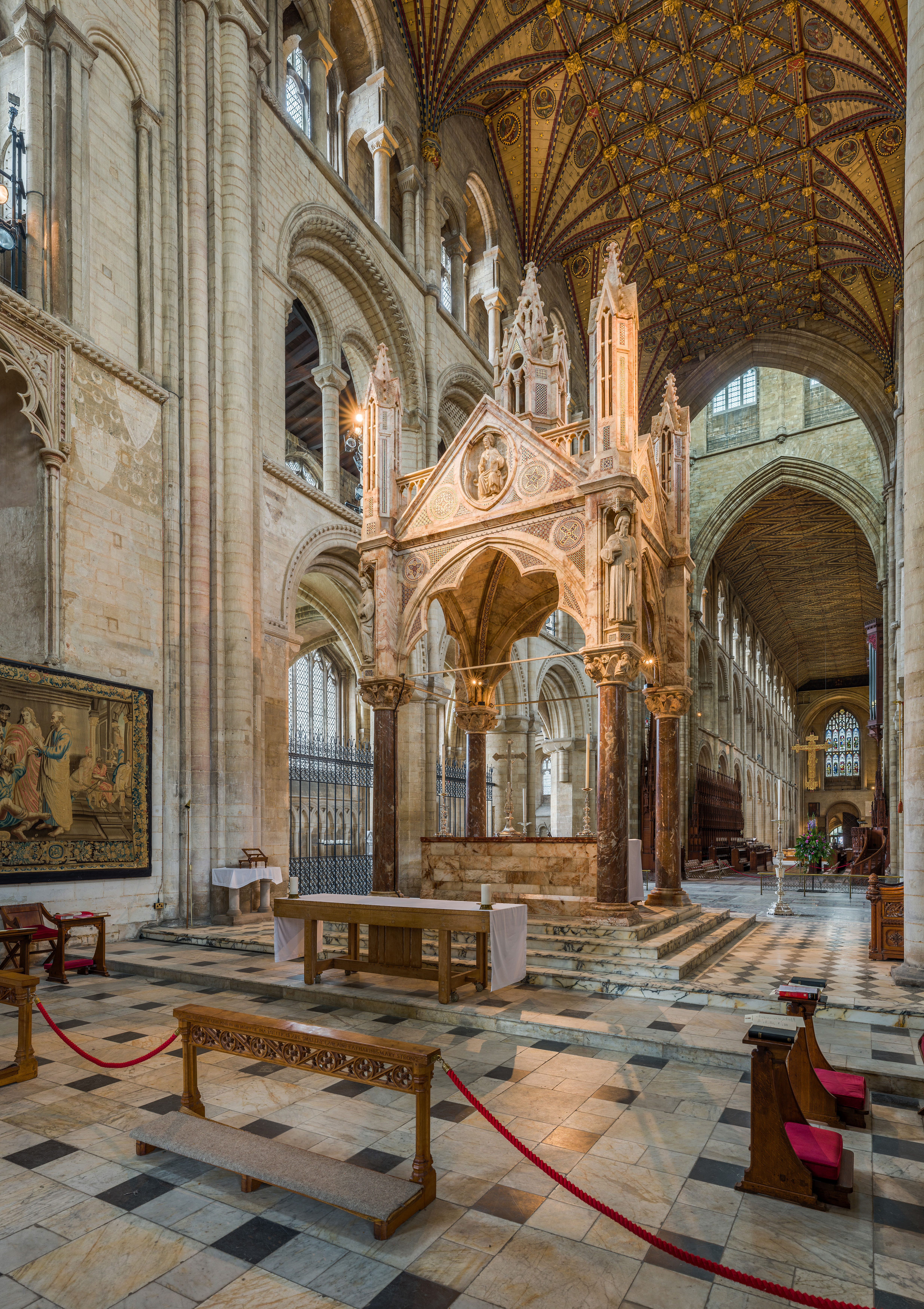 The high altar of Peterborough Cathedral in Cambridgeshire, England.